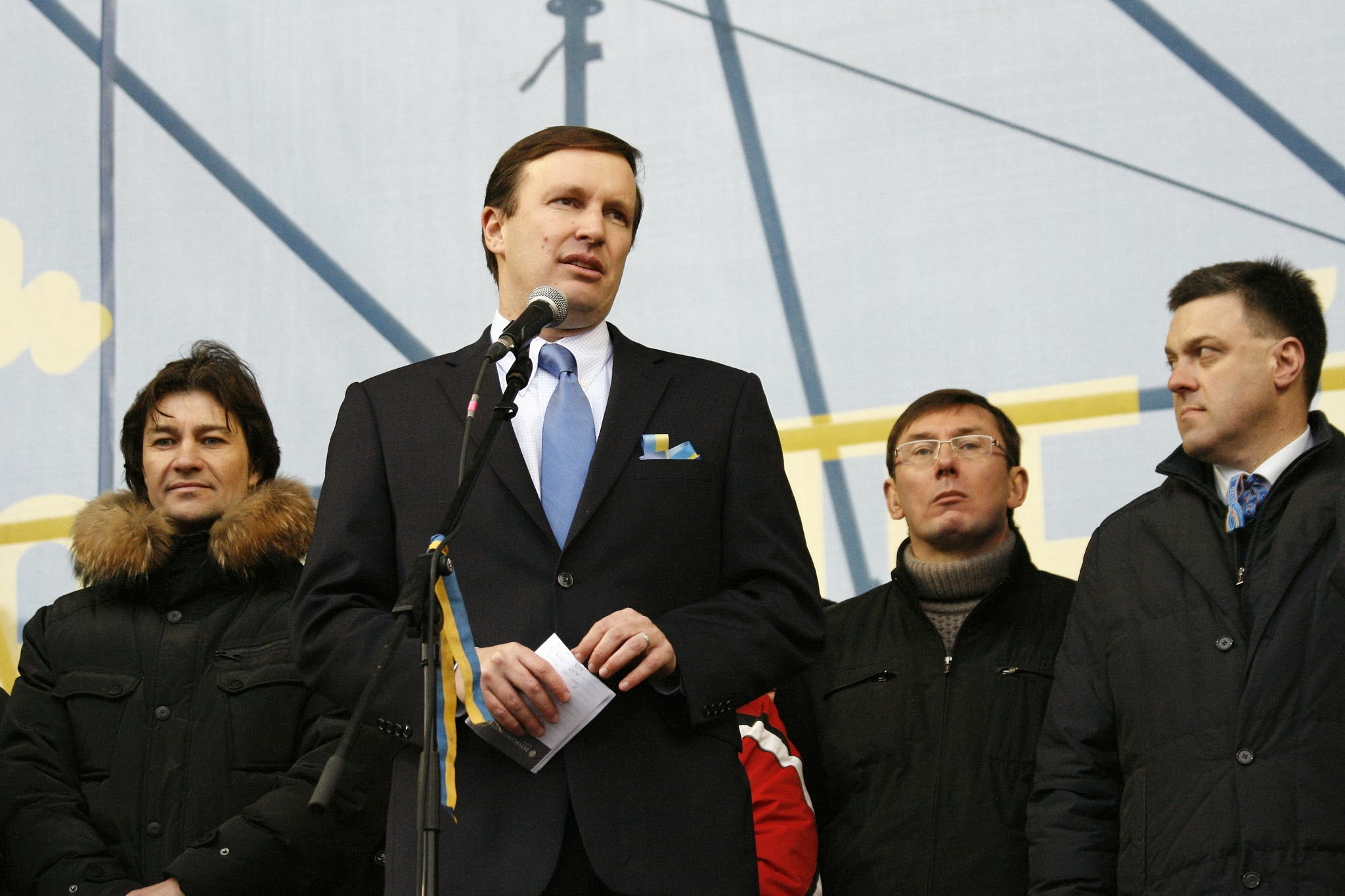 Chris Murphy at Euromaidan in Kyiv, Ukraine